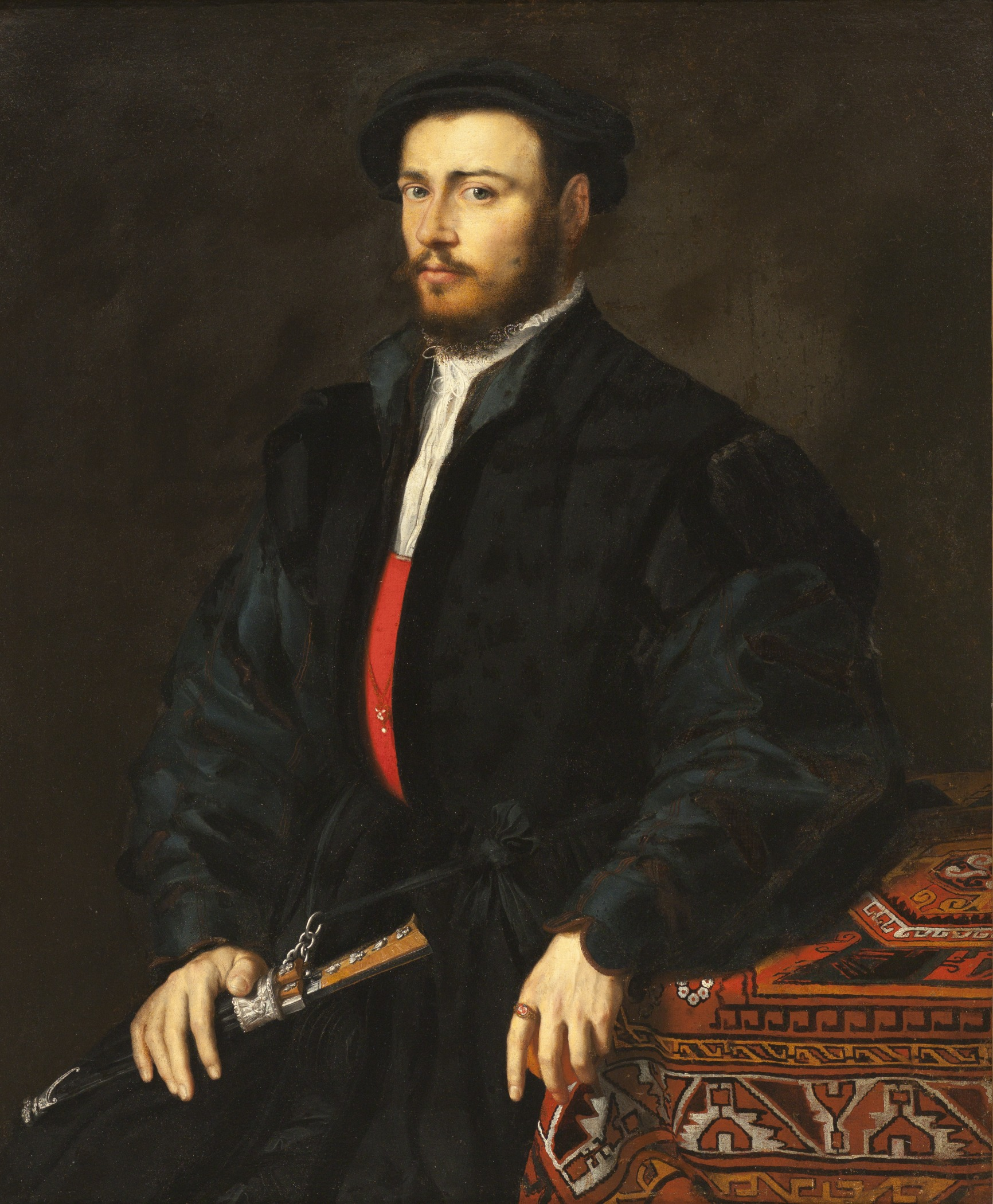 Holland, circa 1545 Paintings Oil on canvas Paul Rodman Mabury Collection (39.12.16) European Painting Currently on public view: Ahmanson Building, floor 3